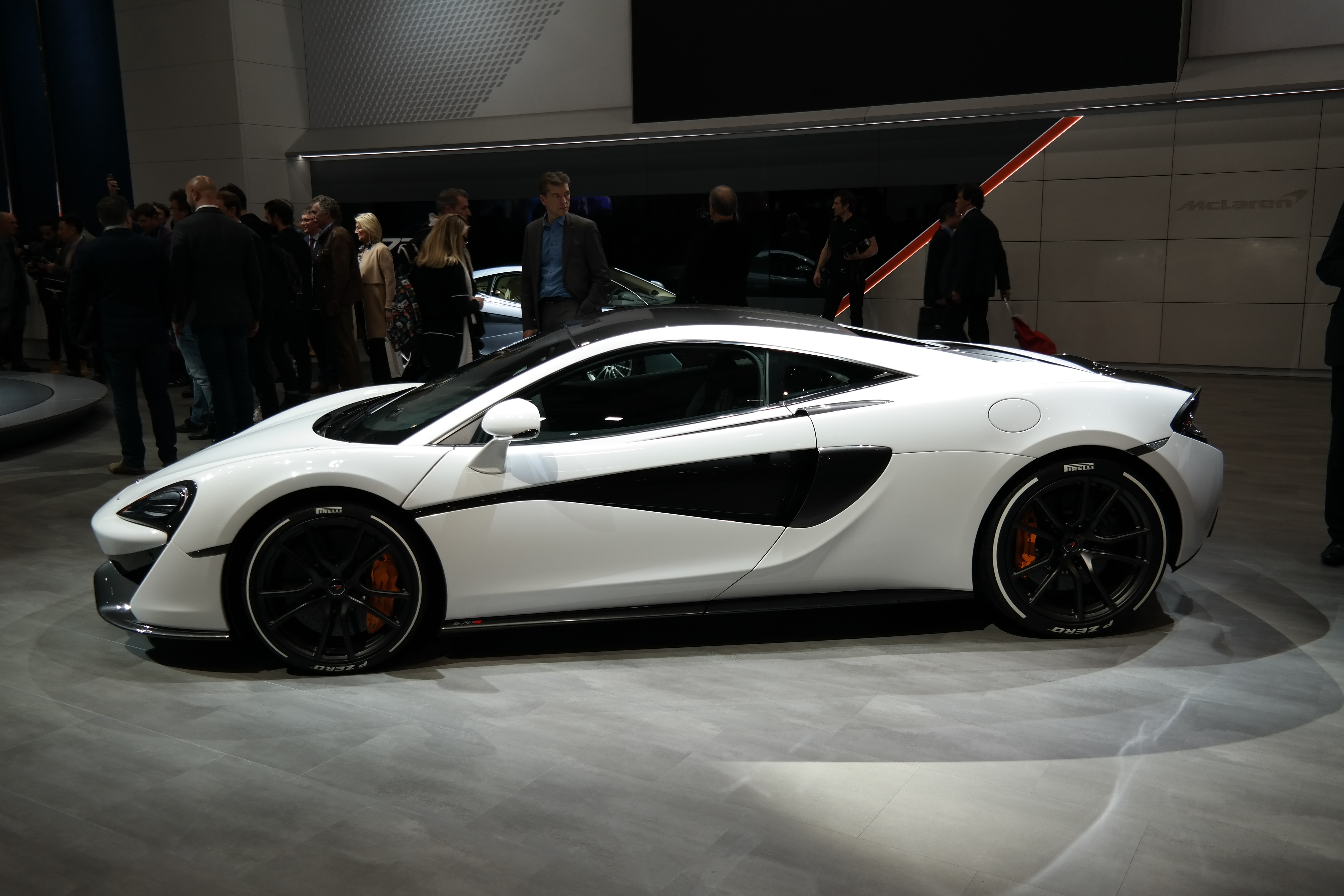 Geneva Motor Show 2017 (photo taken on the first press day)